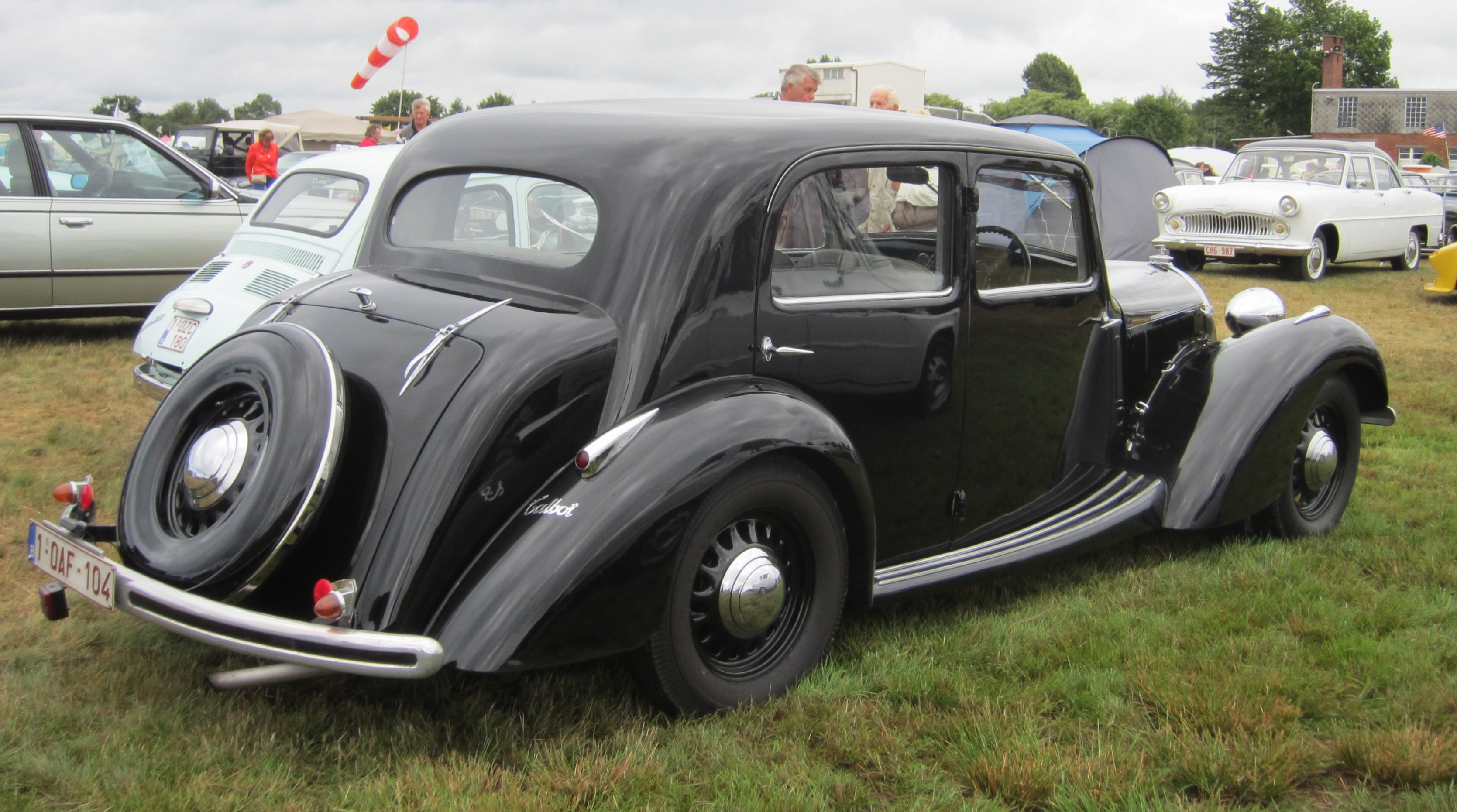 Talbot Lago T4 (1937) rear three quarters